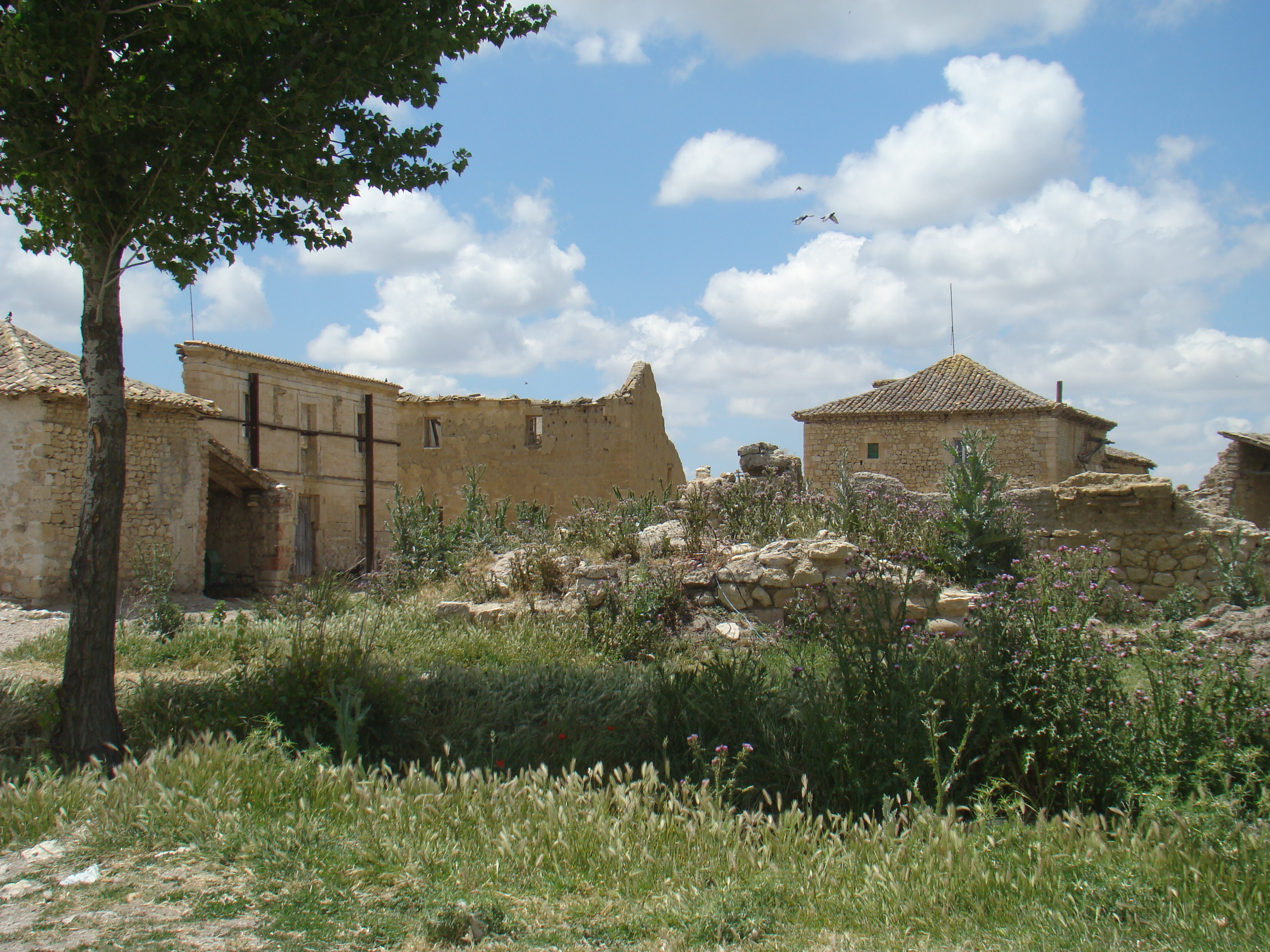 The place known as Granja de San Andrés is located in the «benigno valley», 3.5 km from the municipality of San Martín de Valvení, province of Valladolid, Castilla y León, Spain. His life began as a Benedictine monastery called San Andrés de Valbení but as the monks moved to the new monastery of Palazuelos, the place became a priory. In the 21st century the place is conserved as an agricultural farm although the old buildings have not been kept in good condition nor has been used, so that their remains deteriorate from year to year. In the photo the facade of the old ancestral home of the priory.